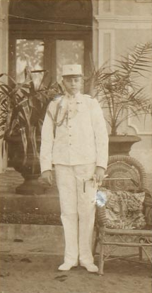 Prince Royal Luís Filipe of Braganza (1887-1908), photographed in Lourenço Marques (today, Maputo), in Mozambique.